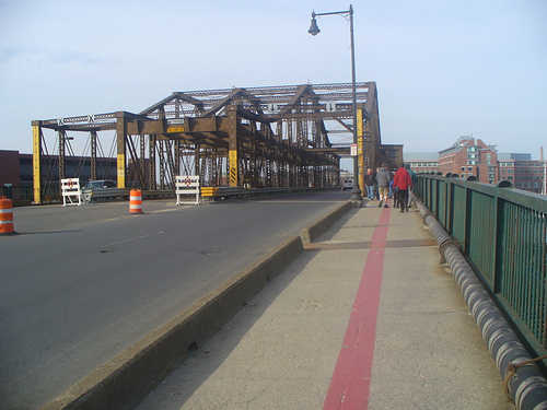 Charlestown Bridge in Boston, Massachusetts.